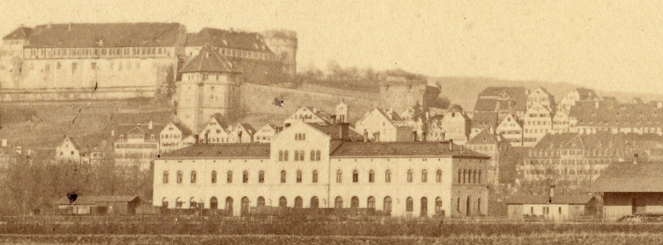 Tübingen. Main Station looking north